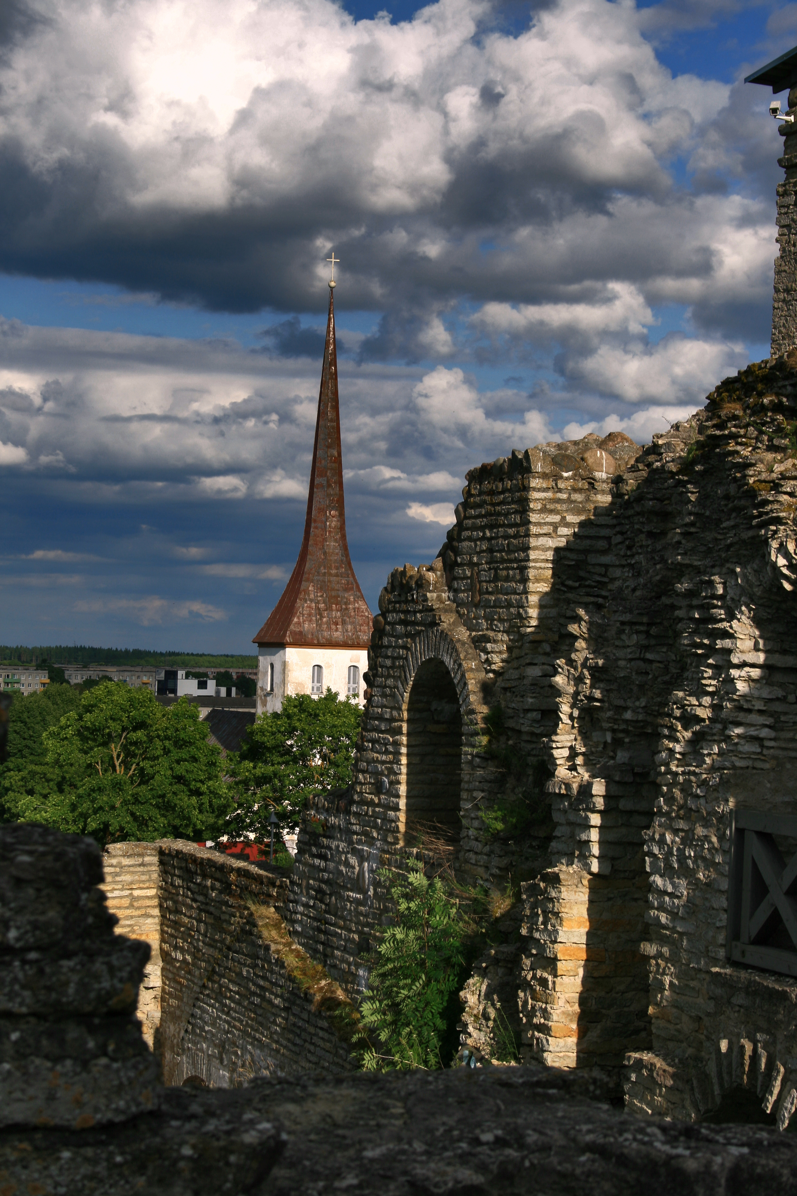 Rakvere Church of the Holy Trinity